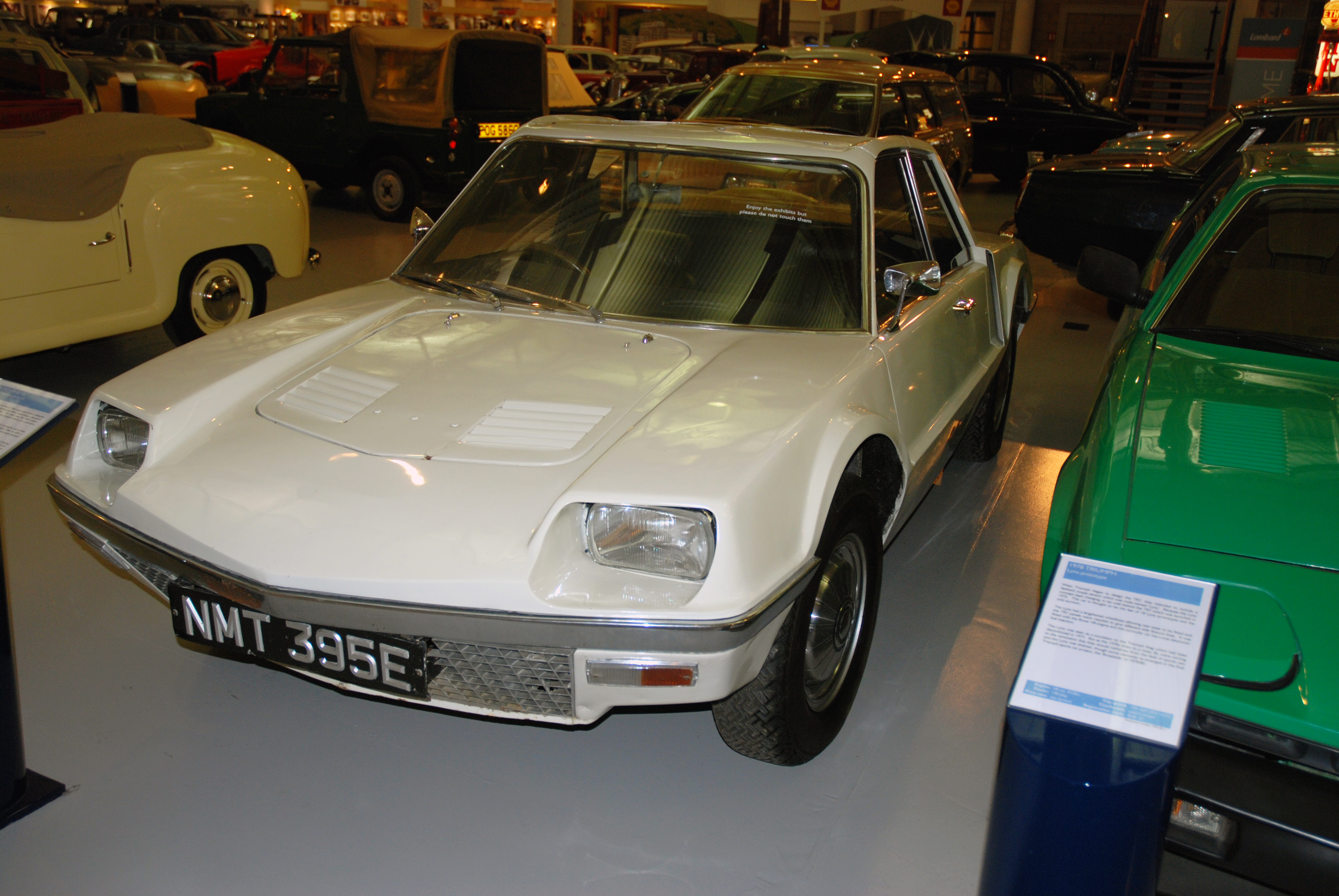 Heritage Motor Centre,Nov 2007